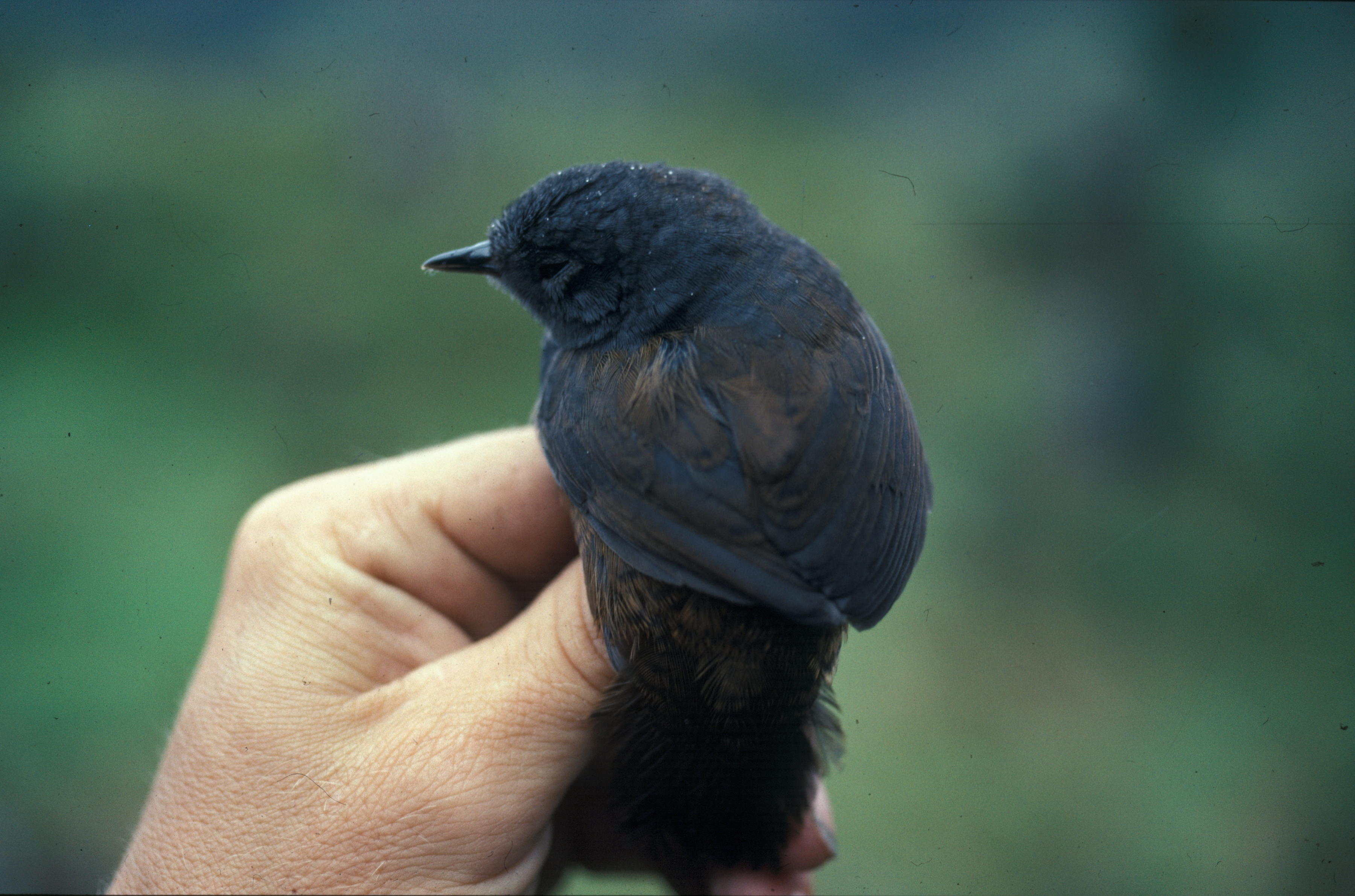 Blackish Tapaculo (Scytalopus latrans) from the NBII Image Gallery. Photographed in Ecuador.